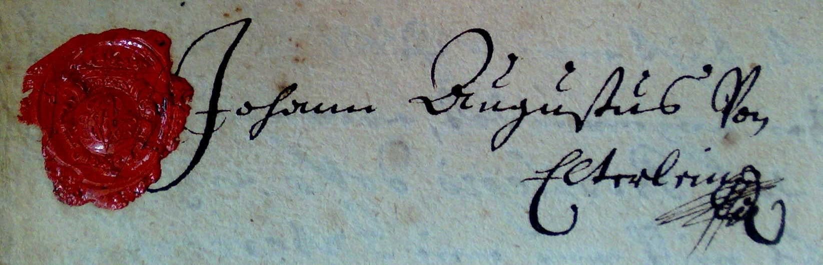 Johann August von Elterlein, Seal and Autograph, ca. 1700